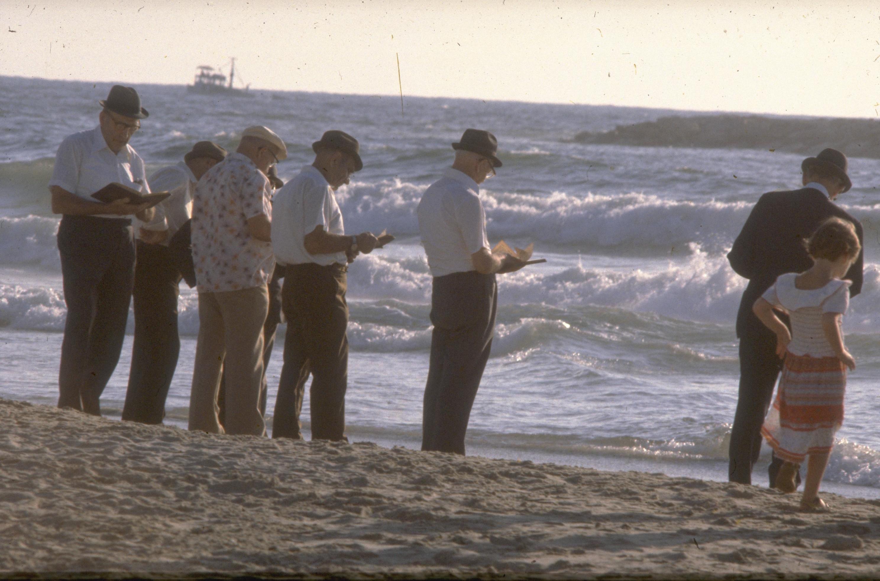 The Taslich prayer at a Tel Aviv beach during Rosh Hashanah. Photo by Sa'ar Ya'acov, GPO.